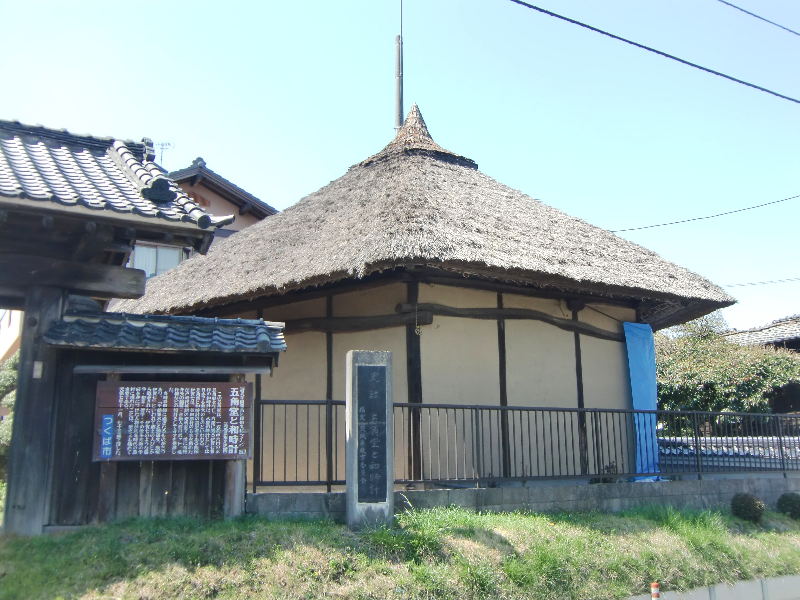 "Gokakudō" , which is registered as a Remains of Ibaraki Prefecture, located in 1945, Yatabe, Tsukuba city, Ibaraki prefecture, Japan.